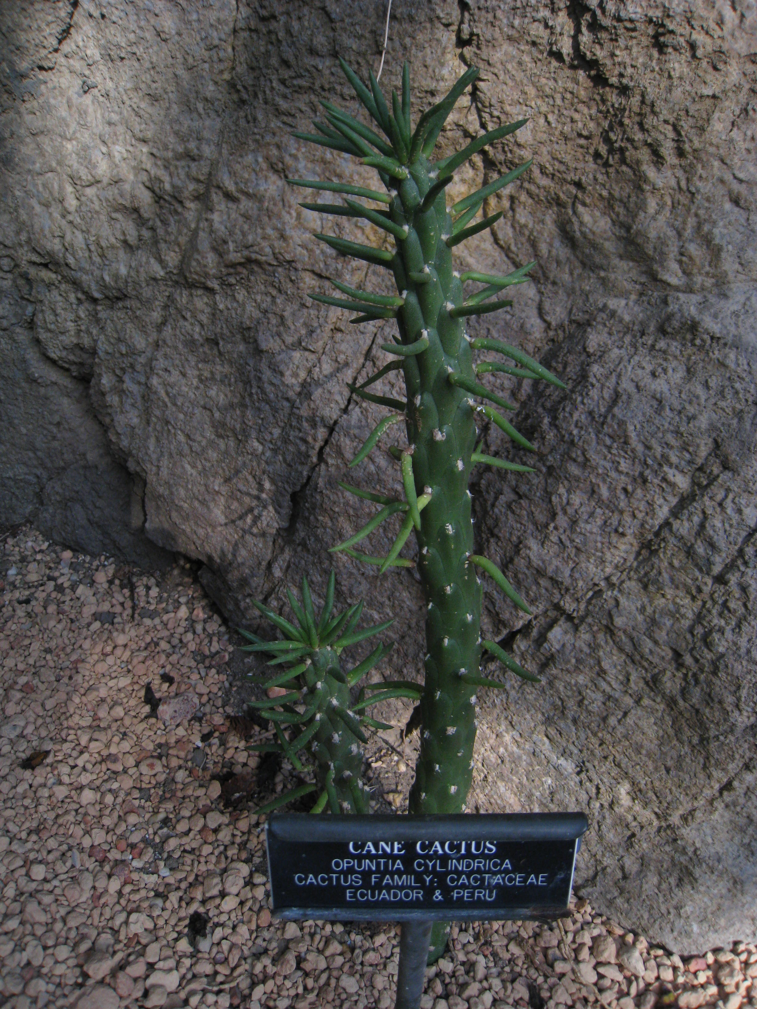 Opuntia cylindrica, or cane cactus, from the Brooklyn Botanic Garden. Note, this may be a misidentified synonym now placed in Austrocylindropuntia.